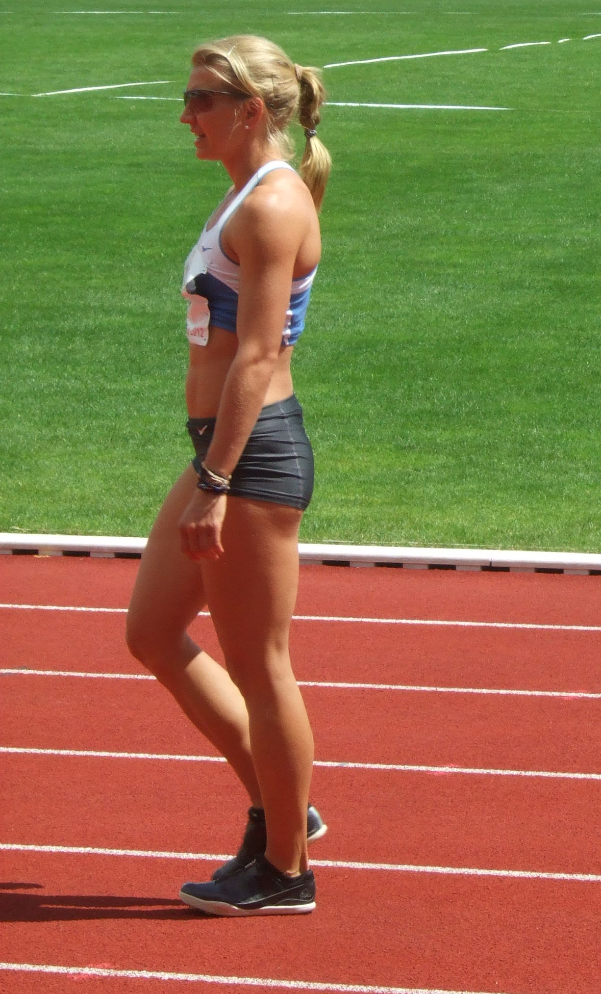 The heptathlete Lilli Schwarzkopf competing in the long jump at the 2012 Thorpe Cup